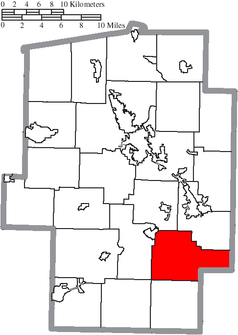 Map of the municipal and township boundaries of Tuscarawas County, Ohio, United States, as of the 2000 census, with the location of Rush Township highlighted. Township borders are shown only in unincorporated areas in order to differentiate incorporated and unincorporated areas more clearly.